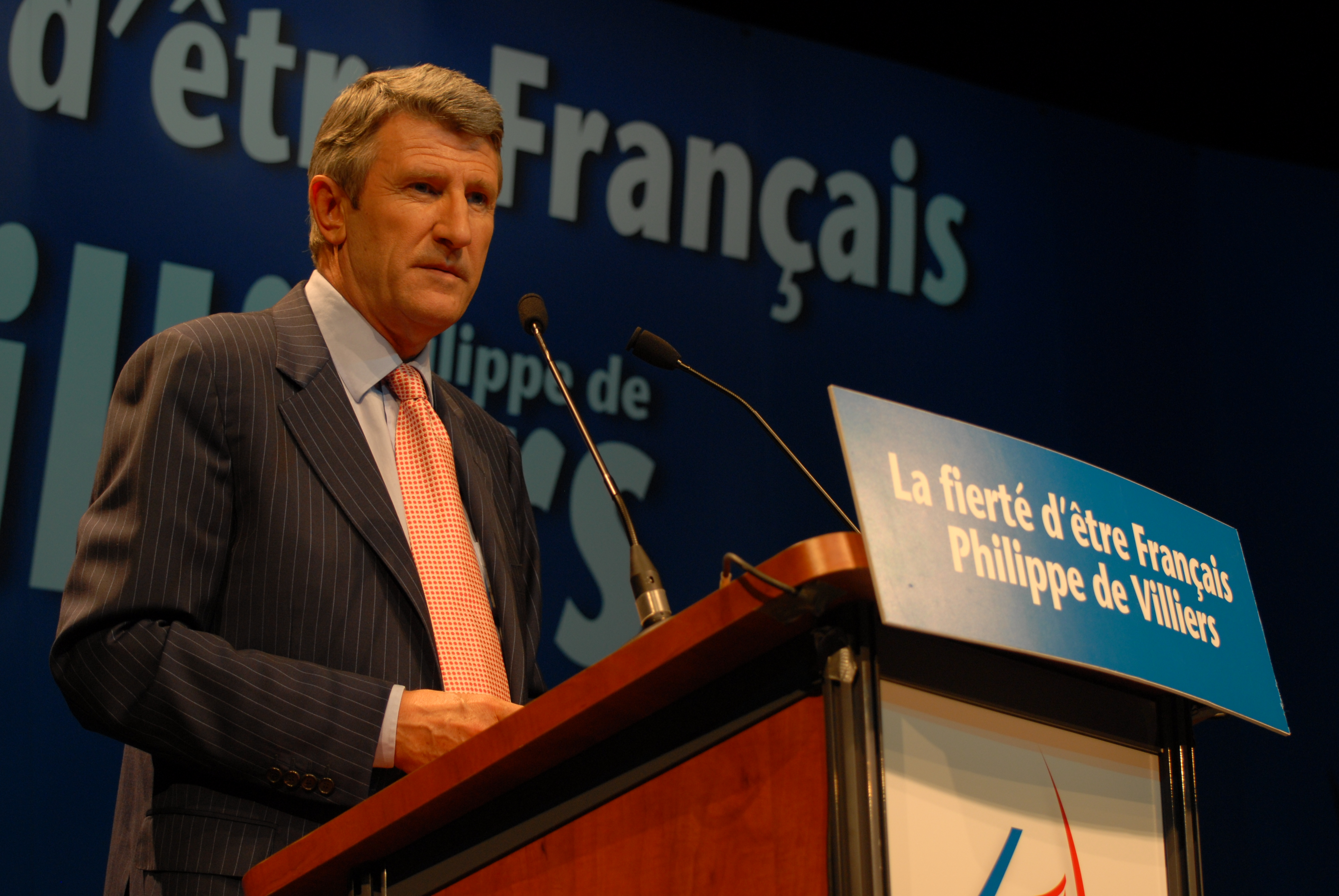 Philippe de Villiers during his meeting in Toulouse on April, 16th 2007 for the 2007 presidential election campaign.